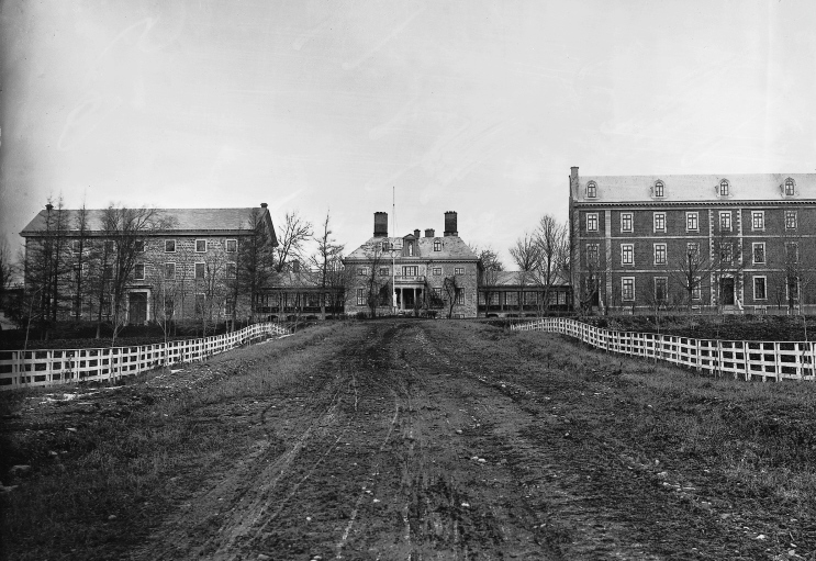 Photograph, "Monklands", Villa Maria Convent, Montreal, QC, 1870-71, William Notman (1826-1891), Silver salts on glass - Wet collodion process - 20 x 25 cm